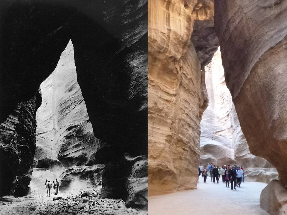 Comparison between Petra siq in 1947 and 2013